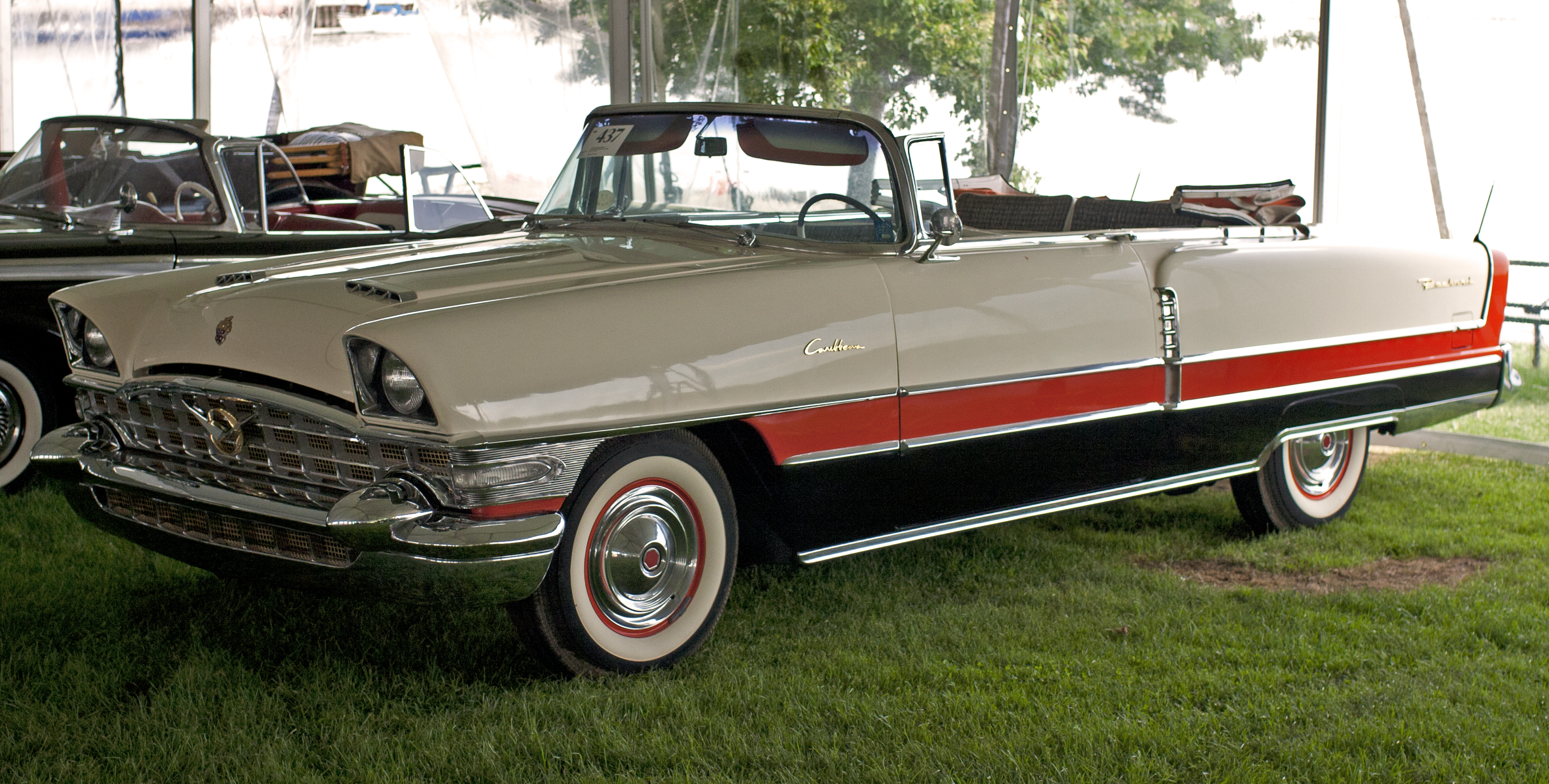 1956 Packard Caribbean Convertible, chassis number 5699-1229. One of 276 built, it is up for sale at the June 3, 2012 Bonham's Auction at the Greenwich Concours d'Elegance.